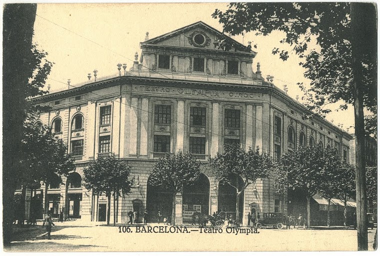 Teatre-Circ Olimpia, at Barcelona, ca.1920